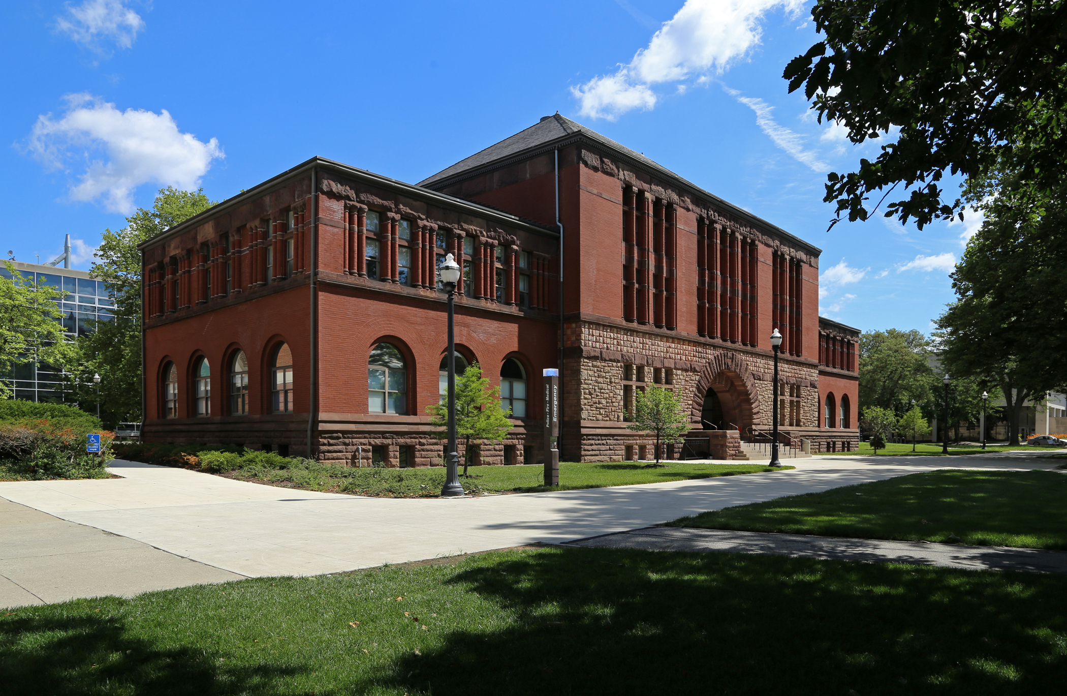 The Ohio State University's oldest extant building—a Richardsonian Romanesque creation, constructed in 1893 and named for Rutherford B. Hayes. The building, designed by Frank Packard, is listed on the National Register of Historic Places.